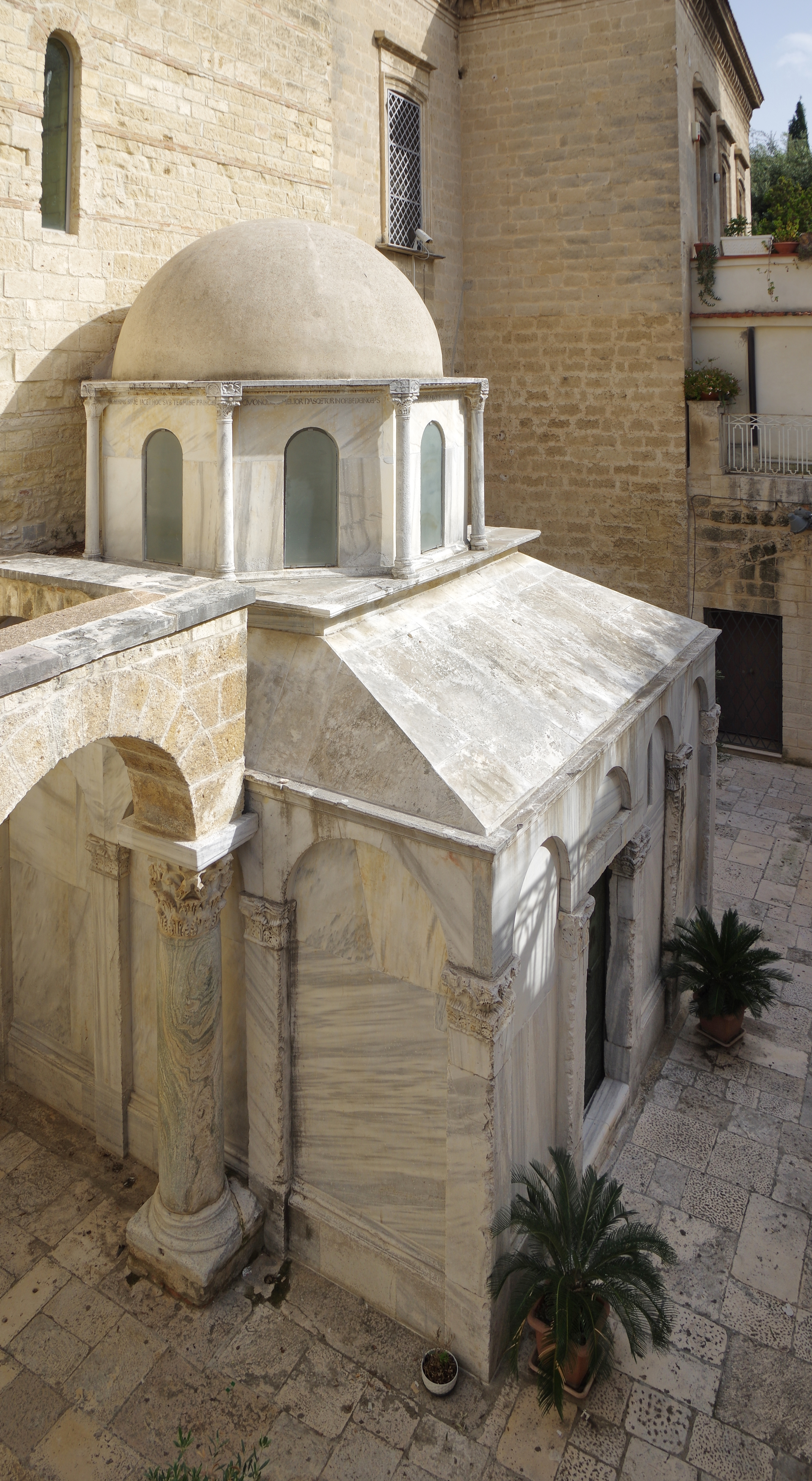 Italy, Canosa di Puglia, San Sabino cathedral, Boemond's Mausoleum